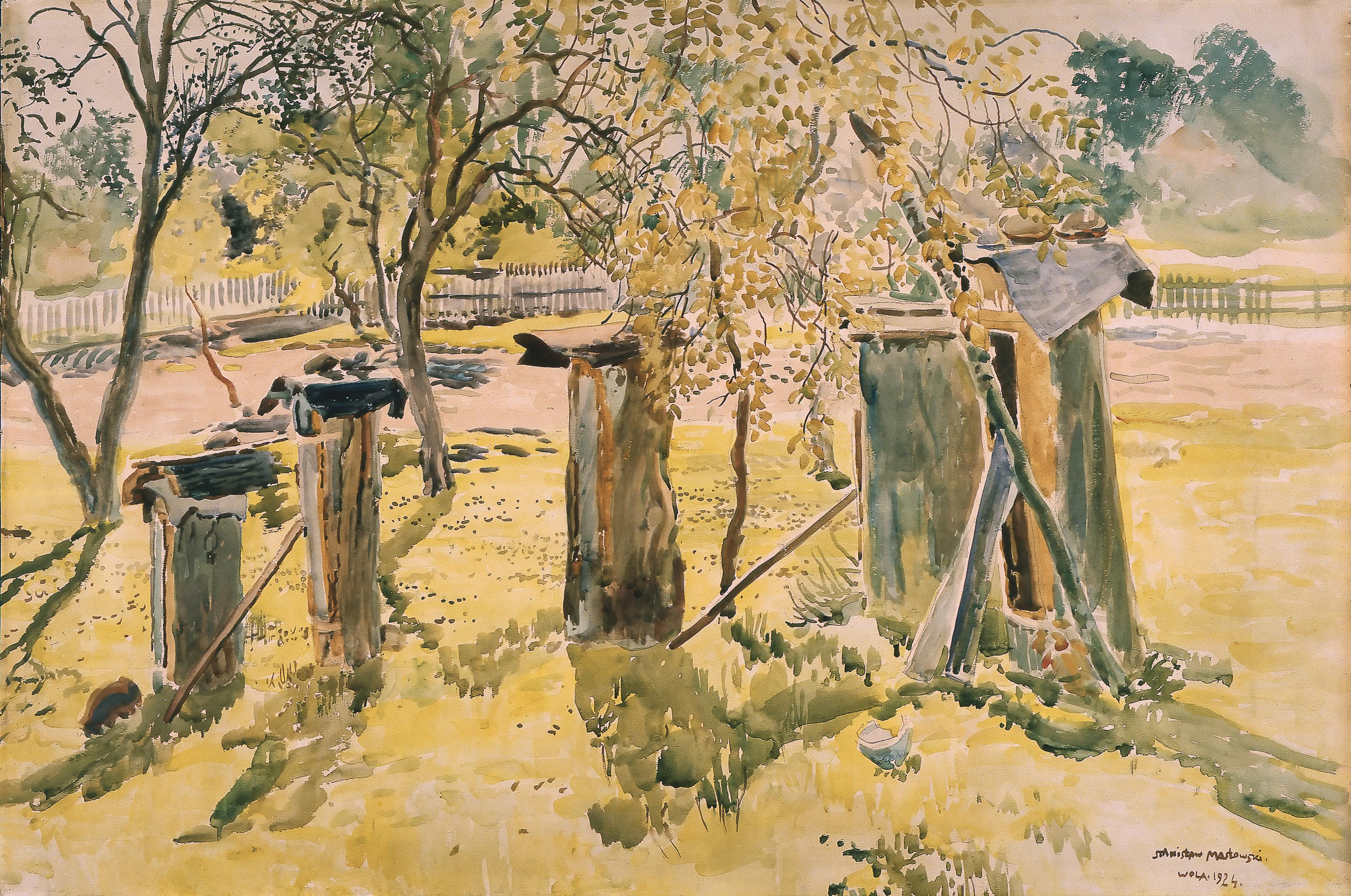 Stanisław Masłowski (1853-1926) Beehives, watercolour, 1924 Dimensions 66 x 98 cm Current location Silesian Museum in Katowice Native name Muzeum Śląskie w Katowicach Location Katocie Established 1829 Website Inscriptions "STANISŁAW MASŁOWSKI WOLA 1924" Source/Photographer Silesian Museum in Katowice